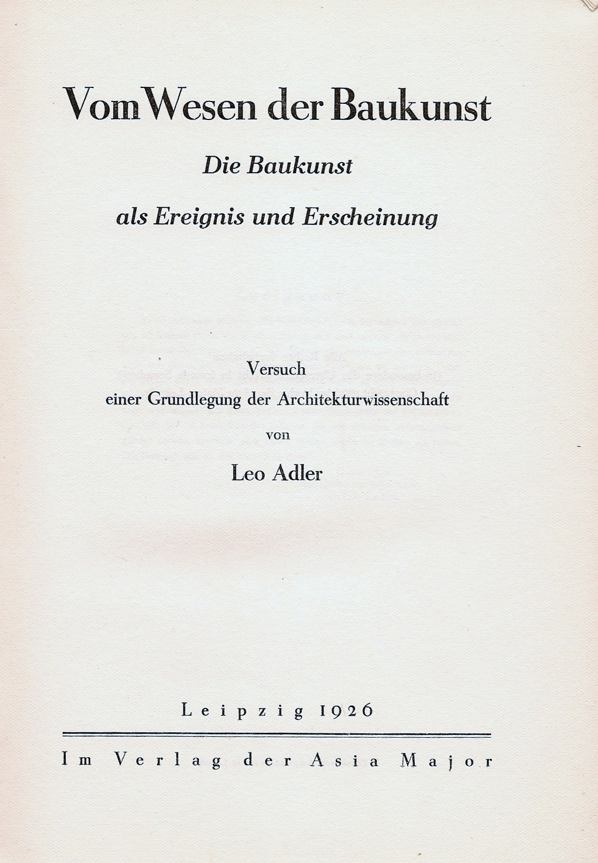 Leo Adler (1891-1962) published his research about the substance of the art of building as event and appearance offering an assay on the foundation of architecture as a science.